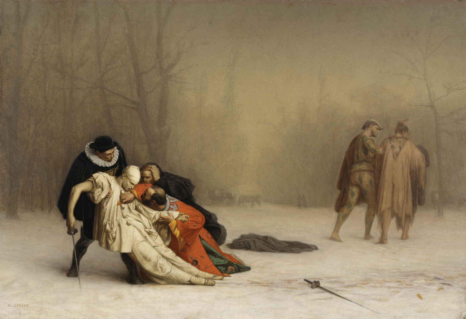 In this painting, showing the outcome of a duel after a costume ball, Gérôme replicates, with slight variations, a composition he had executed for the Duc d'Aumale in 1857. It is dawn on a wintry day in the Bois de Boulogne, Paris, and Pierrot succumbs in the arms of the Duc de Guise. A Venetian doge examines Pierrot's wound while Domino clasps his head in despair. To the right, the victorious American Indian departs, accompanied by Harlequin.